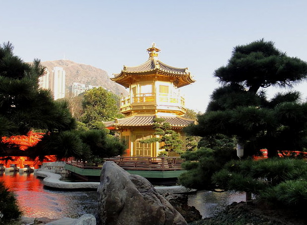 Nan Lian Garden